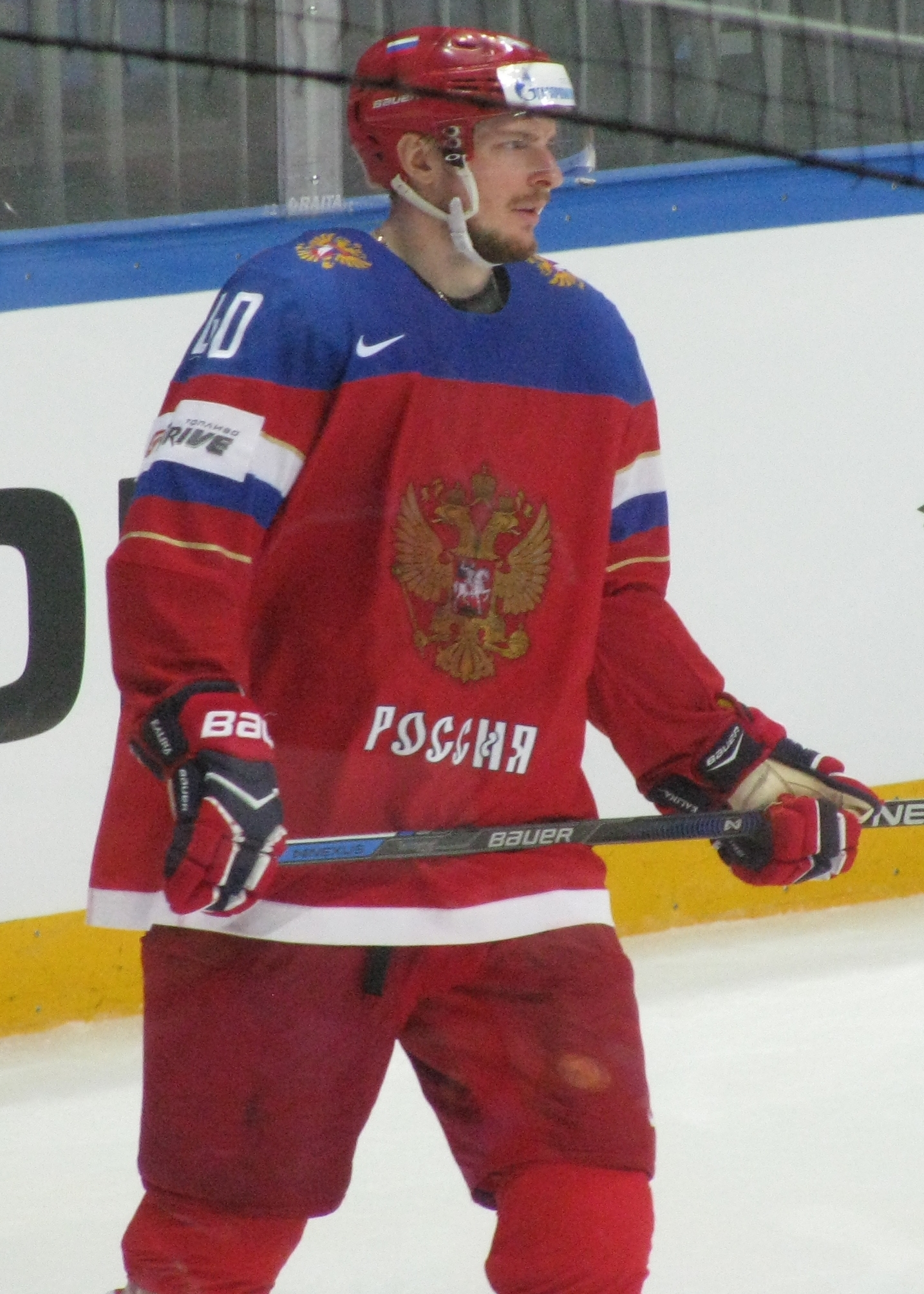 Sergei Kalinin as a player of Russia national ice hockey team